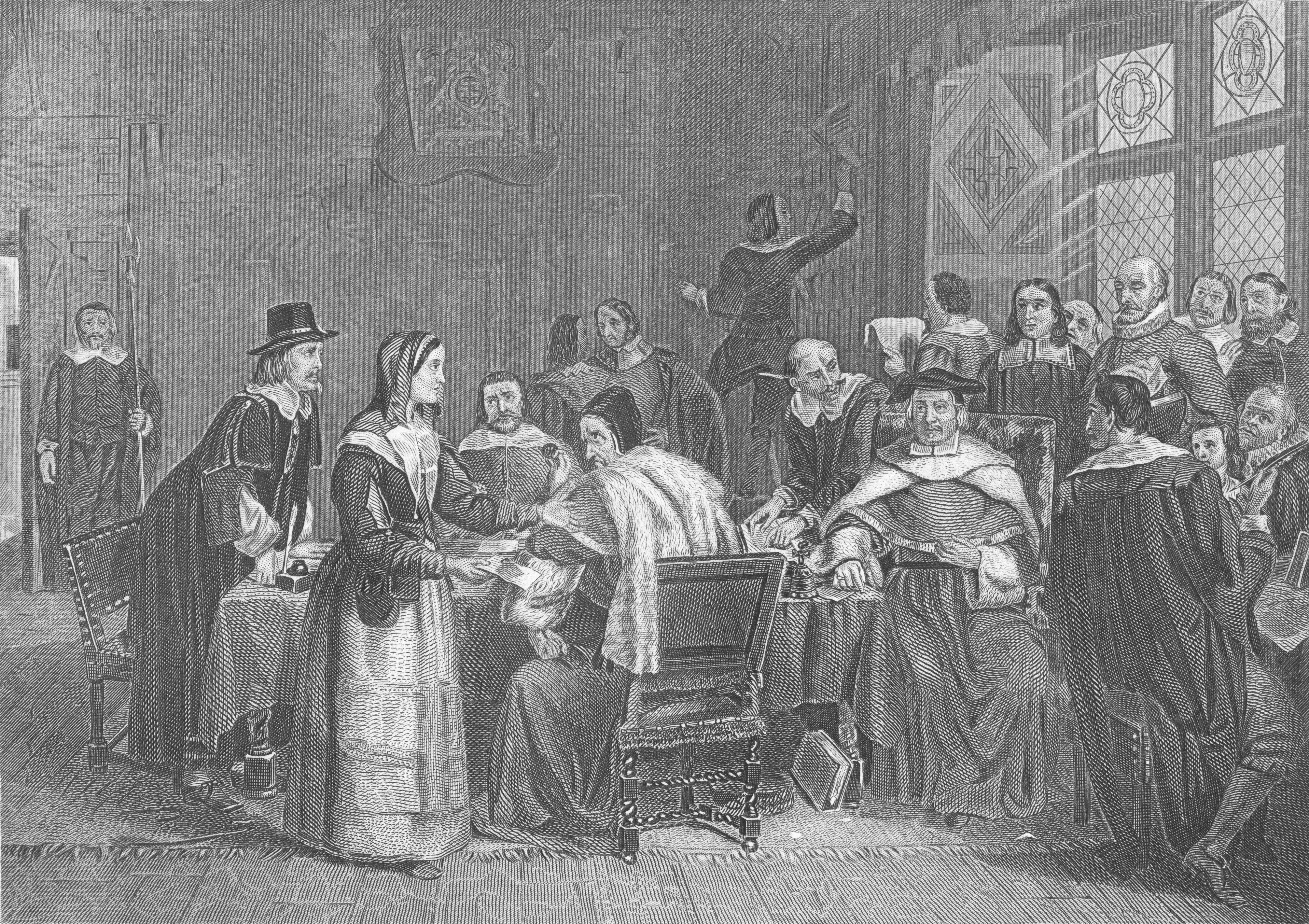 A picture of the wife of John Bunyan interceding for his release from prison